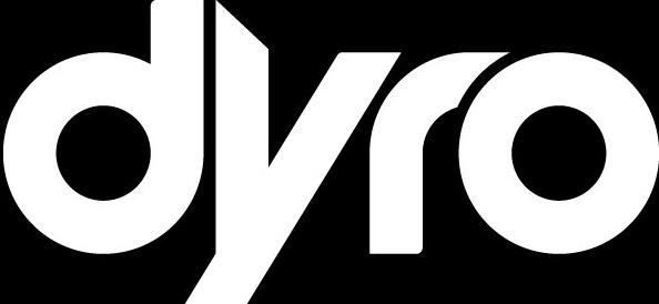 Dyro cover